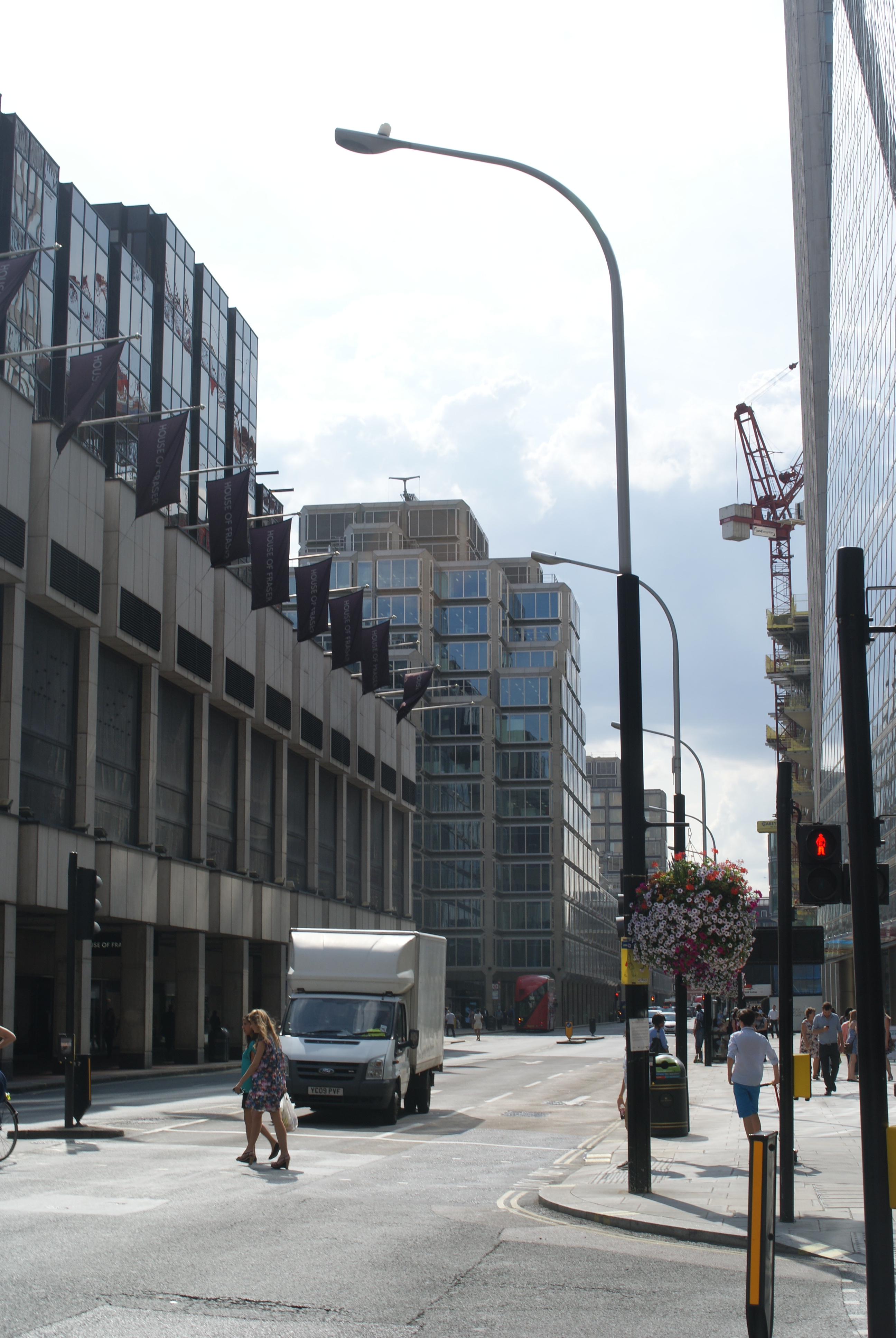 House of Fraser, Victoria Street, London SW1